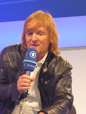 Andreas Kieling (Book Fair Frankfurt 2015)